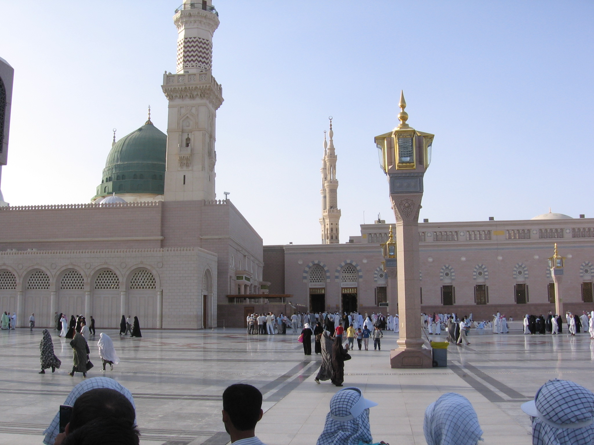 Al-Masjid al-Nabawi in Medina Saudi Arabia